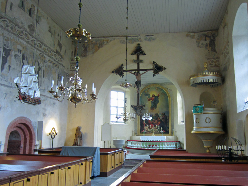 Interior of Lemland Church, Åland, Finland